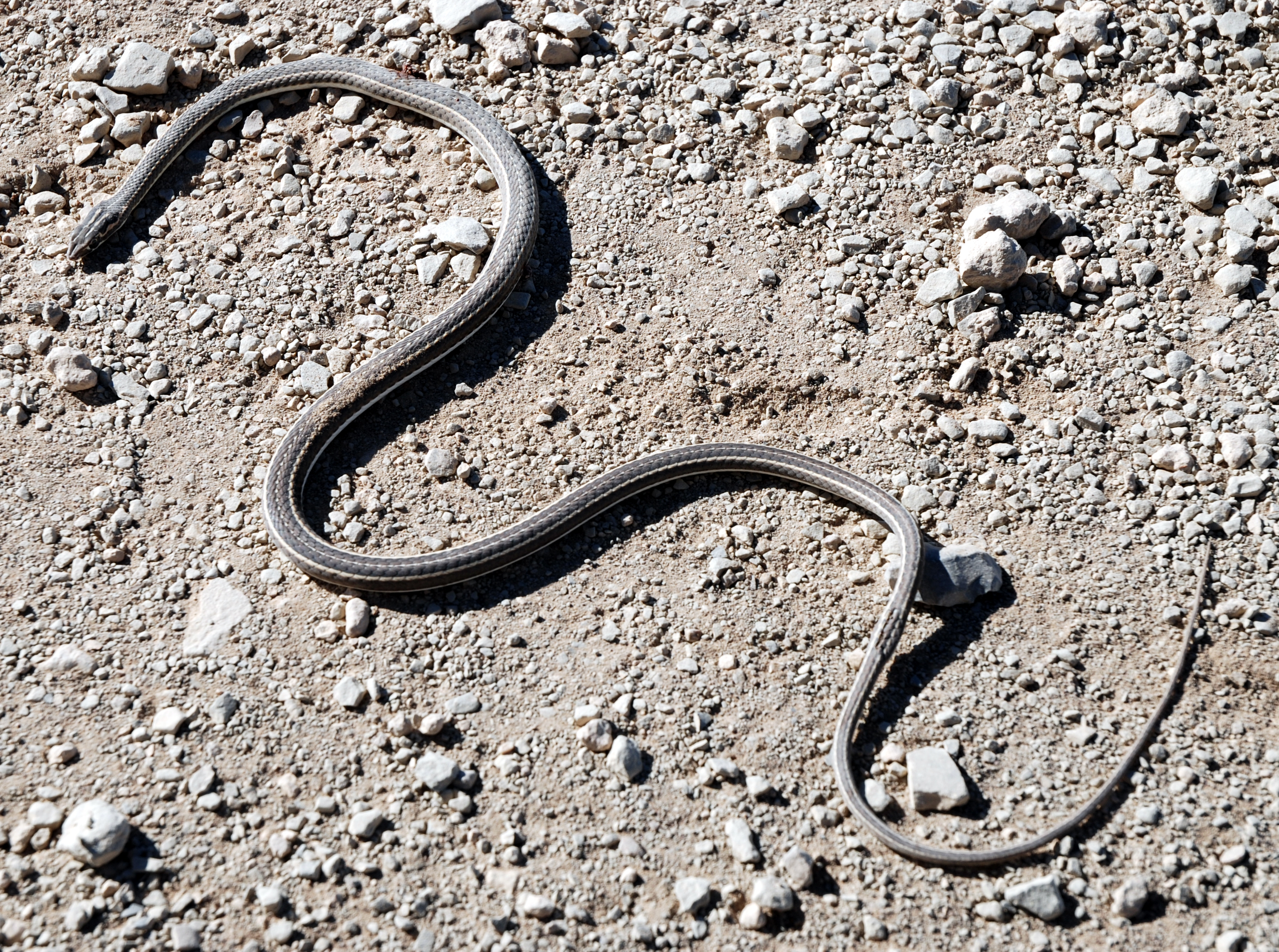 Psammophis trinasalis, Namibia